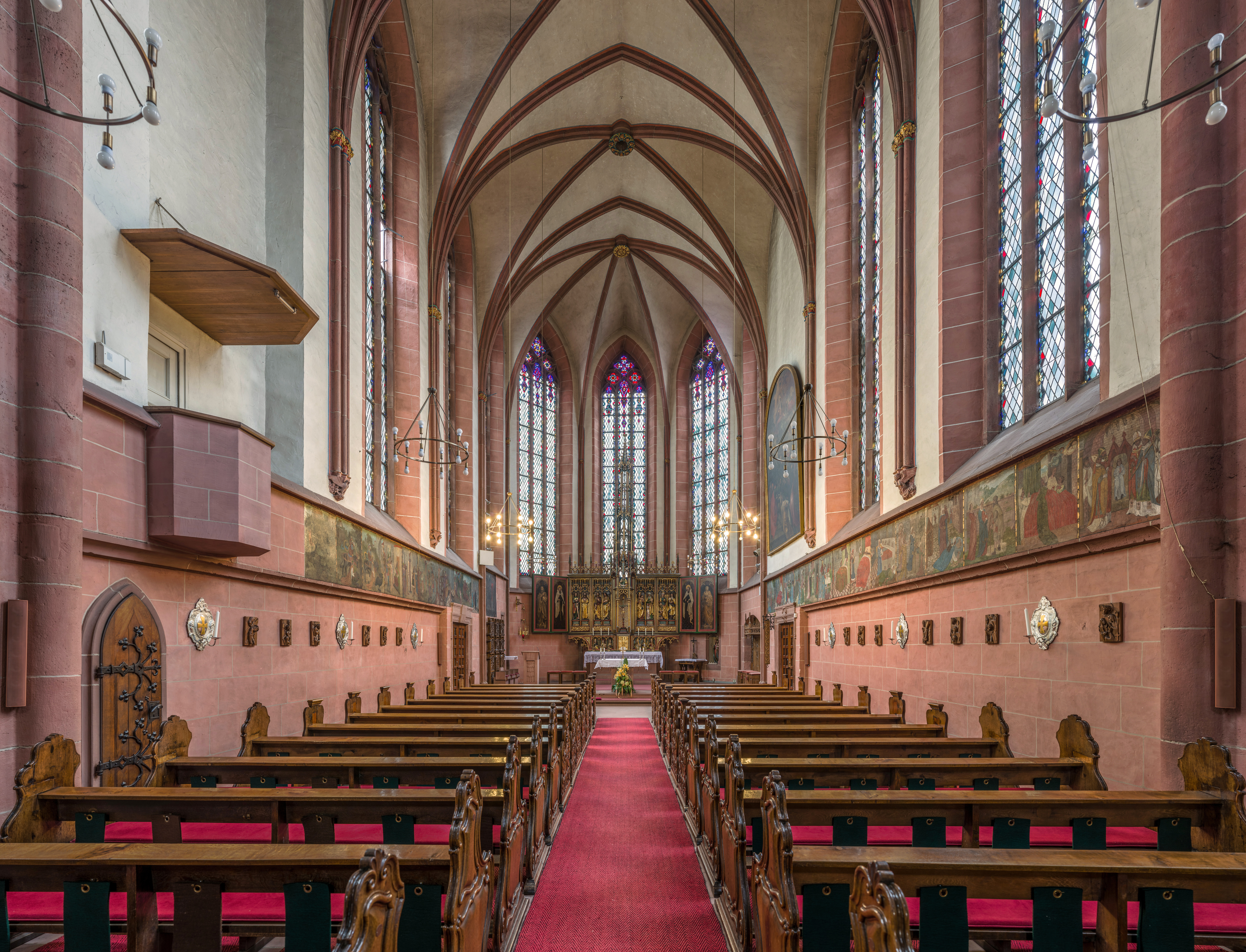 The nave of the Deutschordenskirche, Frankfurt